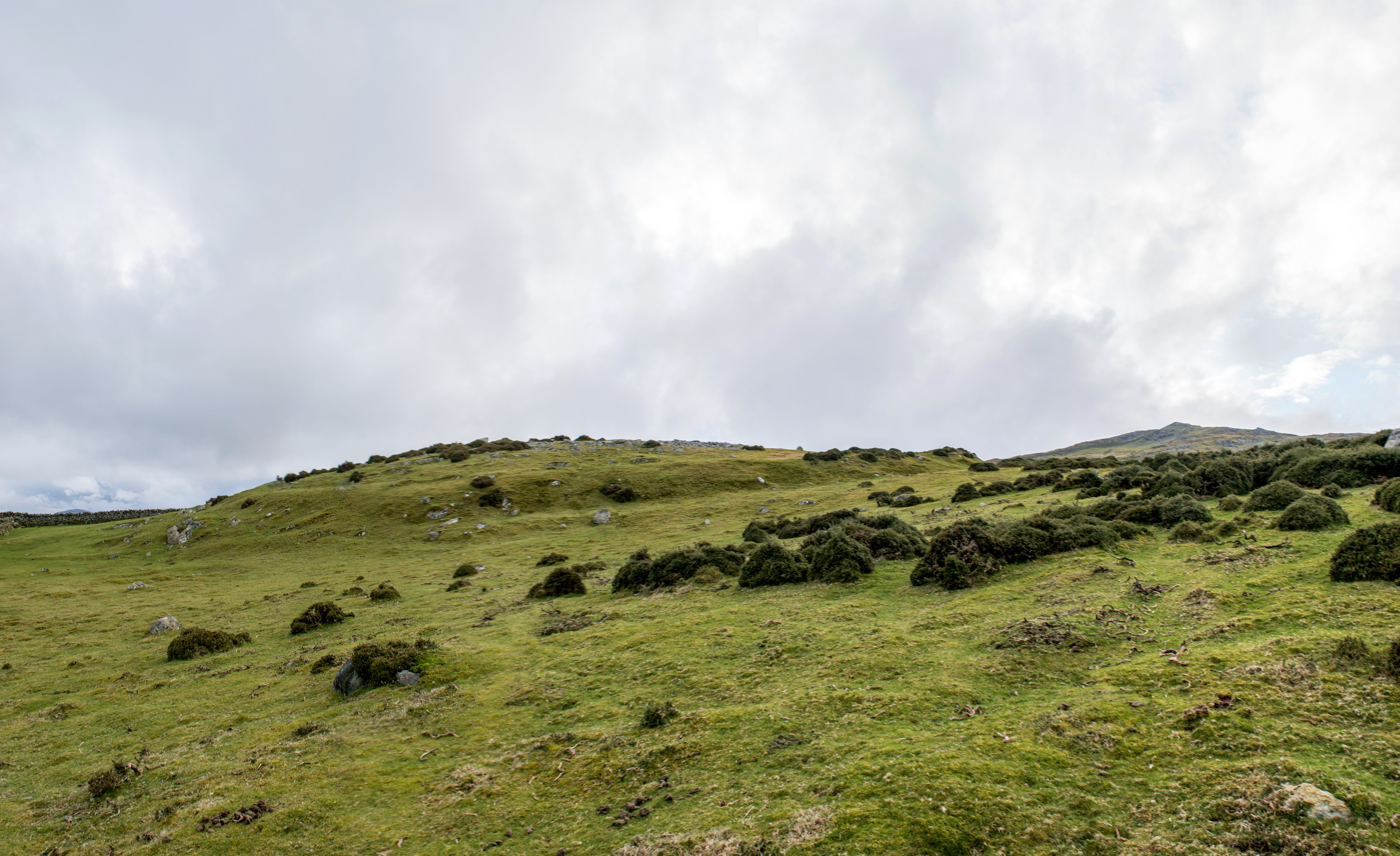 Defensive ditch running along the perimeter of Caer Bach hillfort, looking South and slightly West.